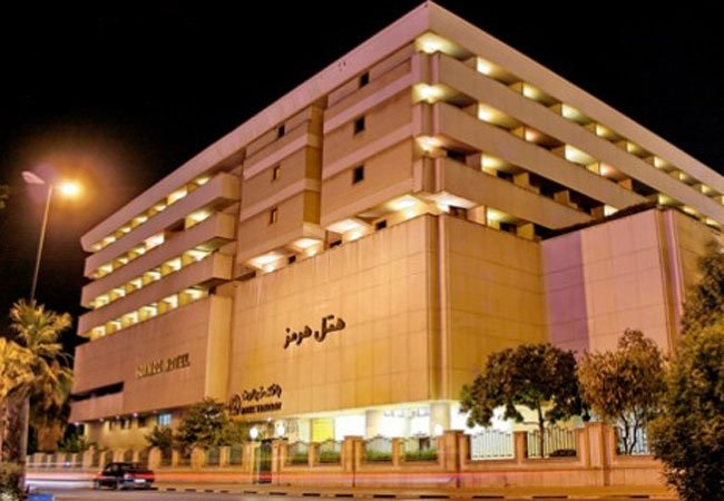 Bandar Abbas hormoz hotel